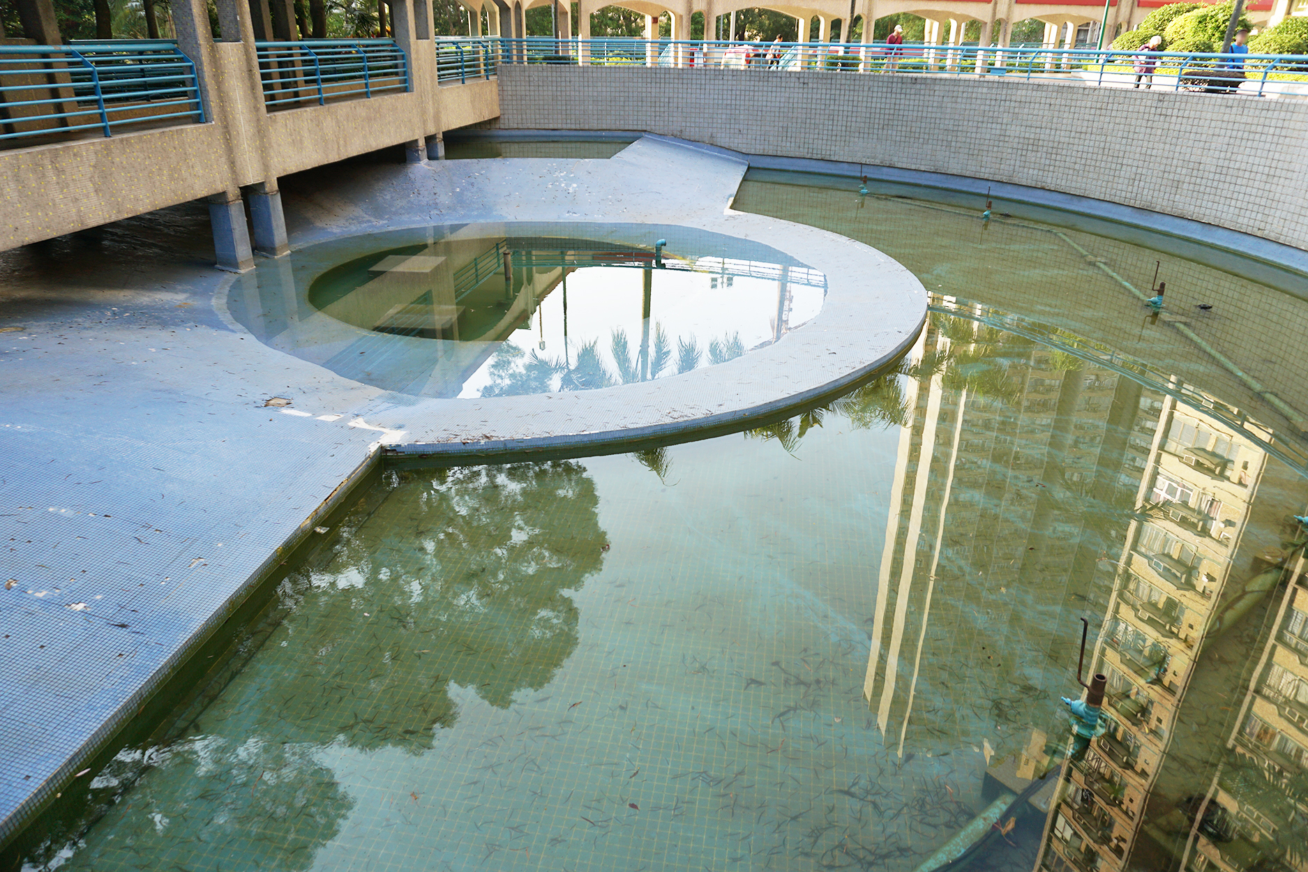 Kwong Yuen Estate in Siu Lek Yuen, Hong Kong.